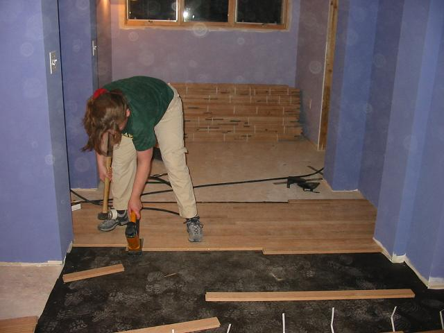 Building a floor